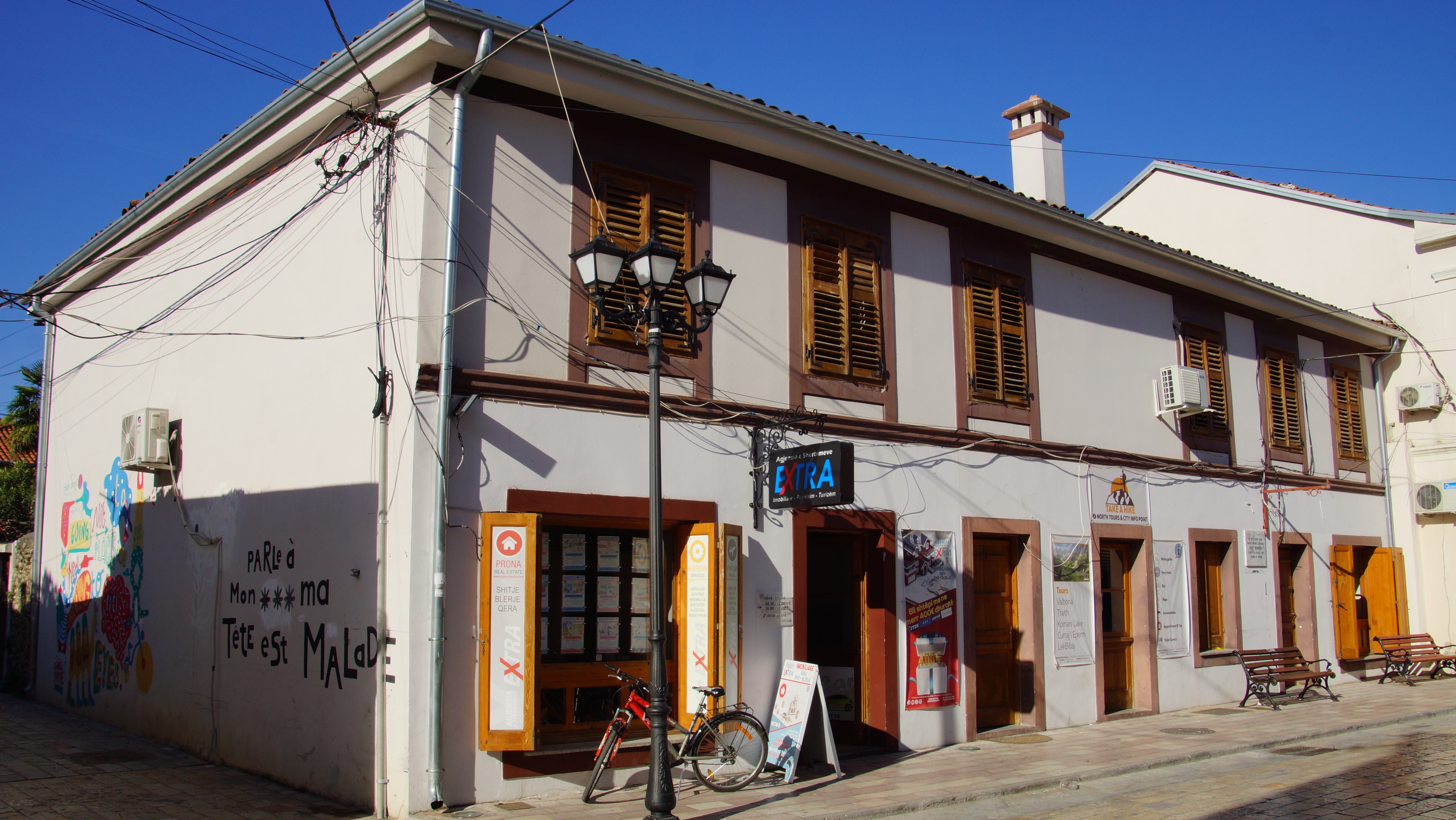 House of Kol Idromeno